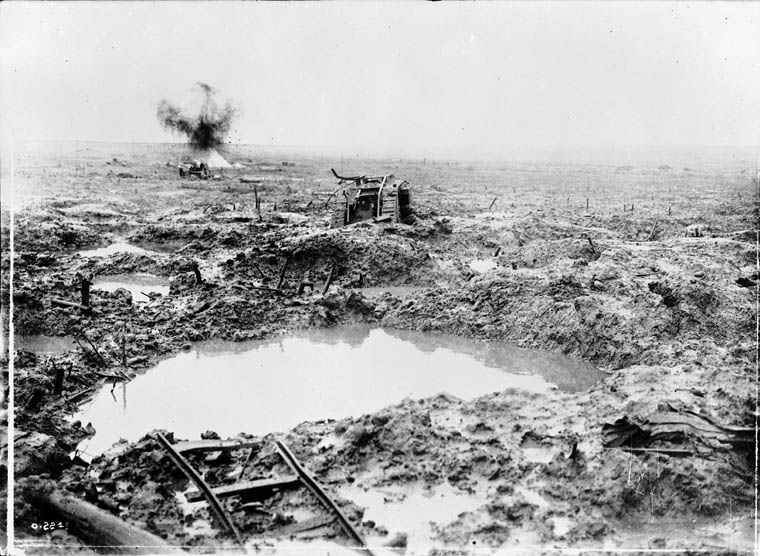 Derelict Tank in badly shelled mud area